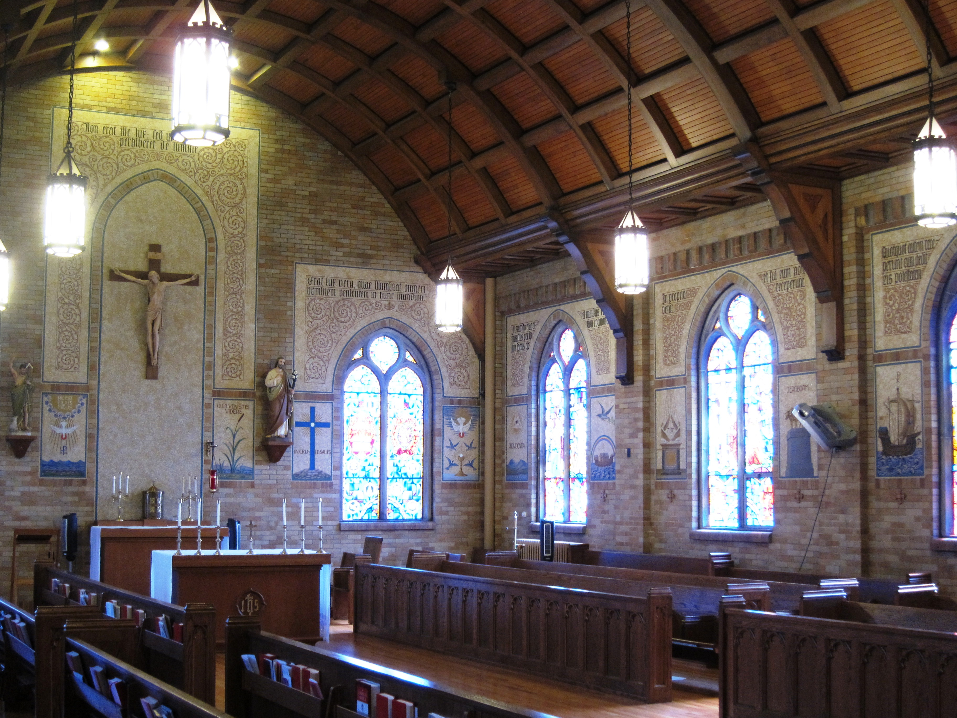 Pontifical College Josephinum (Columbus, Ohio) - interior, Saint Joseph oratory